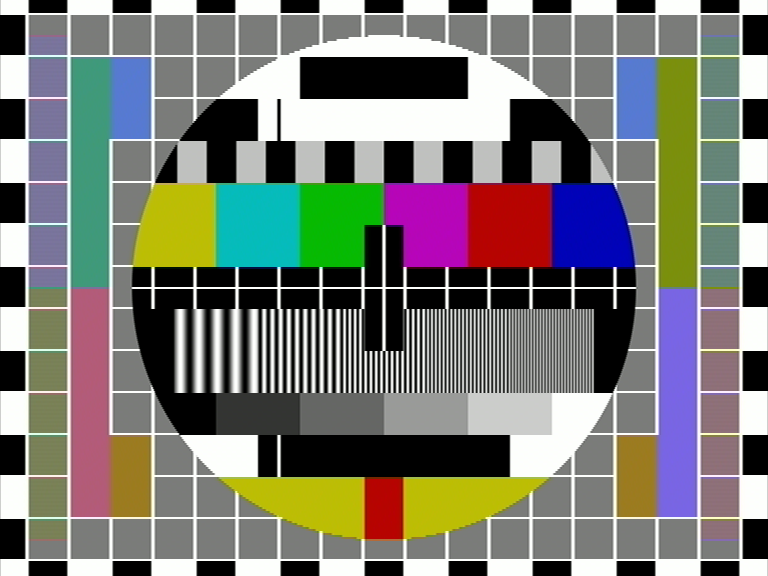 A simulation of severe phase errors in PAL color decoding shown applied to a PM5544 test pattern. In this example the chroma delay line is enabled, cancelling out the phase errors and suppressing Hanover bars. The outermost columns of the test pattern contain color signals that do not alternate phase between lines unlike a normal PAL signal; if the phase is correct those signals will have complementary color from line to line, and cancel out if a delay line is present. In this case, they reveal the phase error through discoloration.